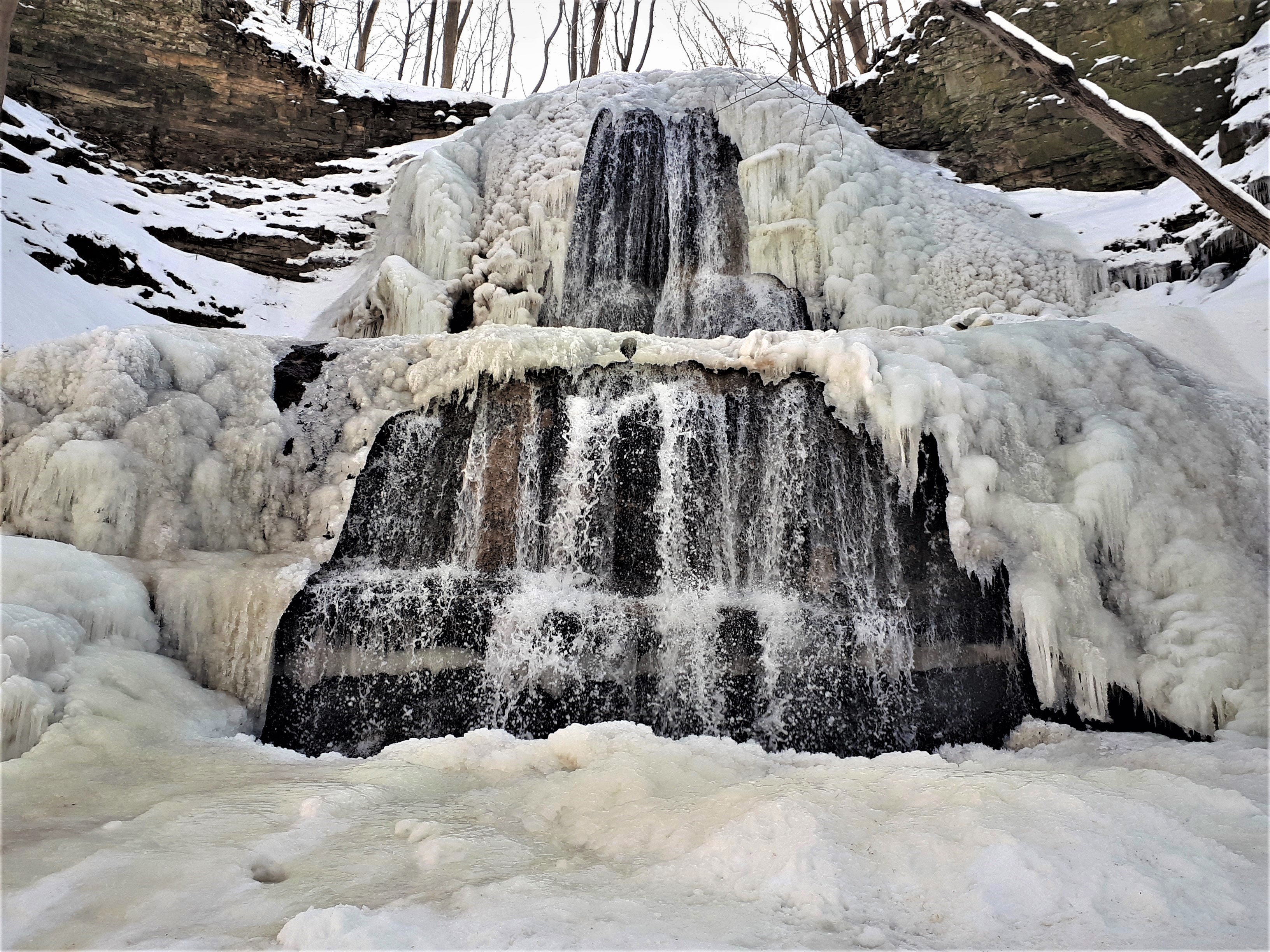 Sherman Falls is a 17-metre-high (56 ft) curtain waterfall found in Ancaster Heights, the western end of Hamilton, Ontario, Canada